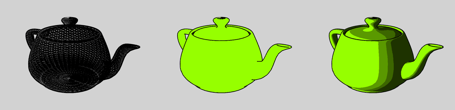 the utah teapot, standard reference object in the computer graphics community, rendered using cel-shading